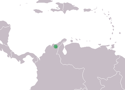 Location of the Arhuaco habitat in Colombia.